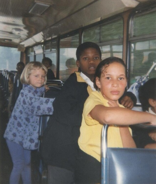 A humankind bus ride through Cape Town.